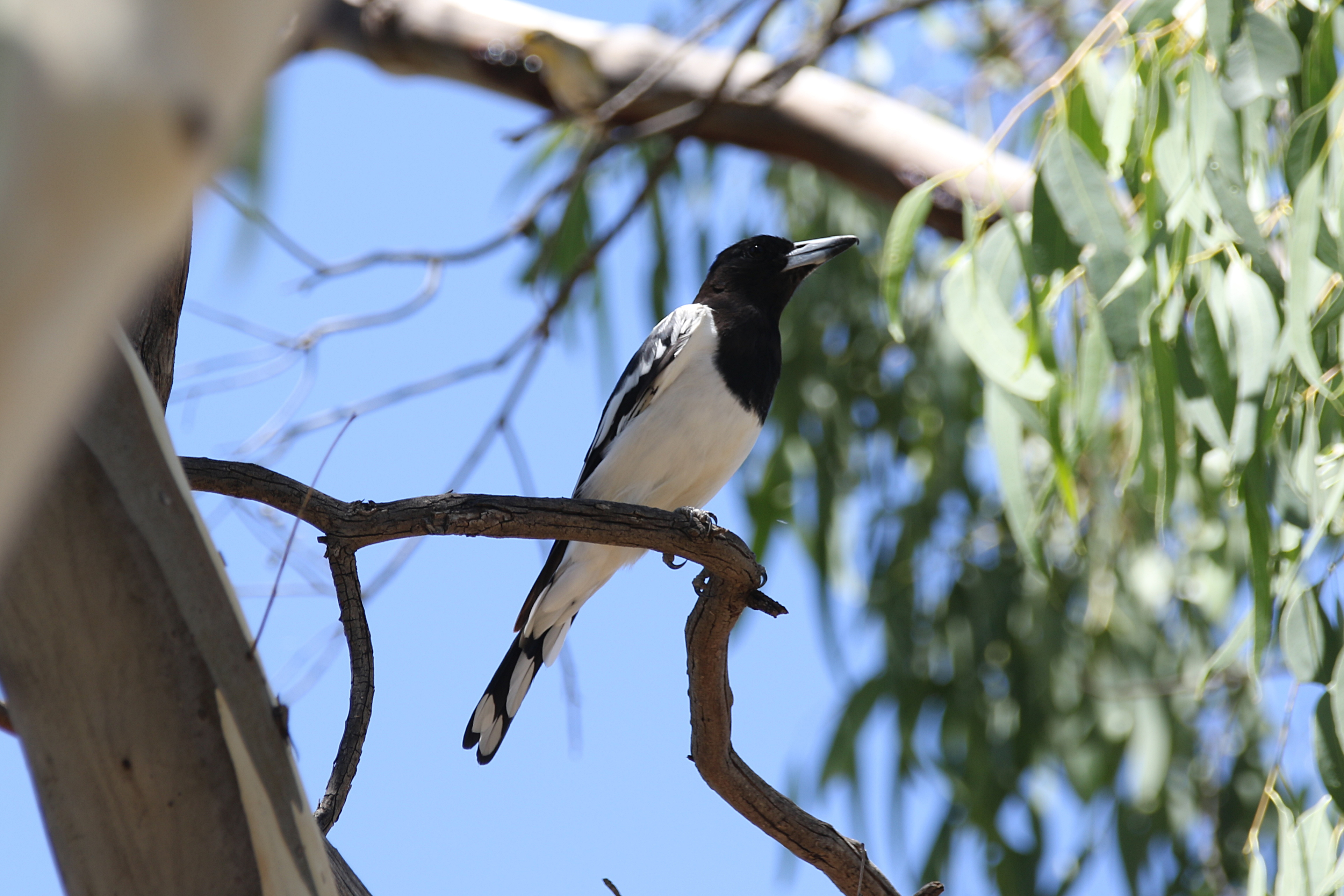 Cracticus nigrogularis (Gould, 1837), Pied Butcherbird, Boundary Bend, Victoria, Australia, 22 January 2017